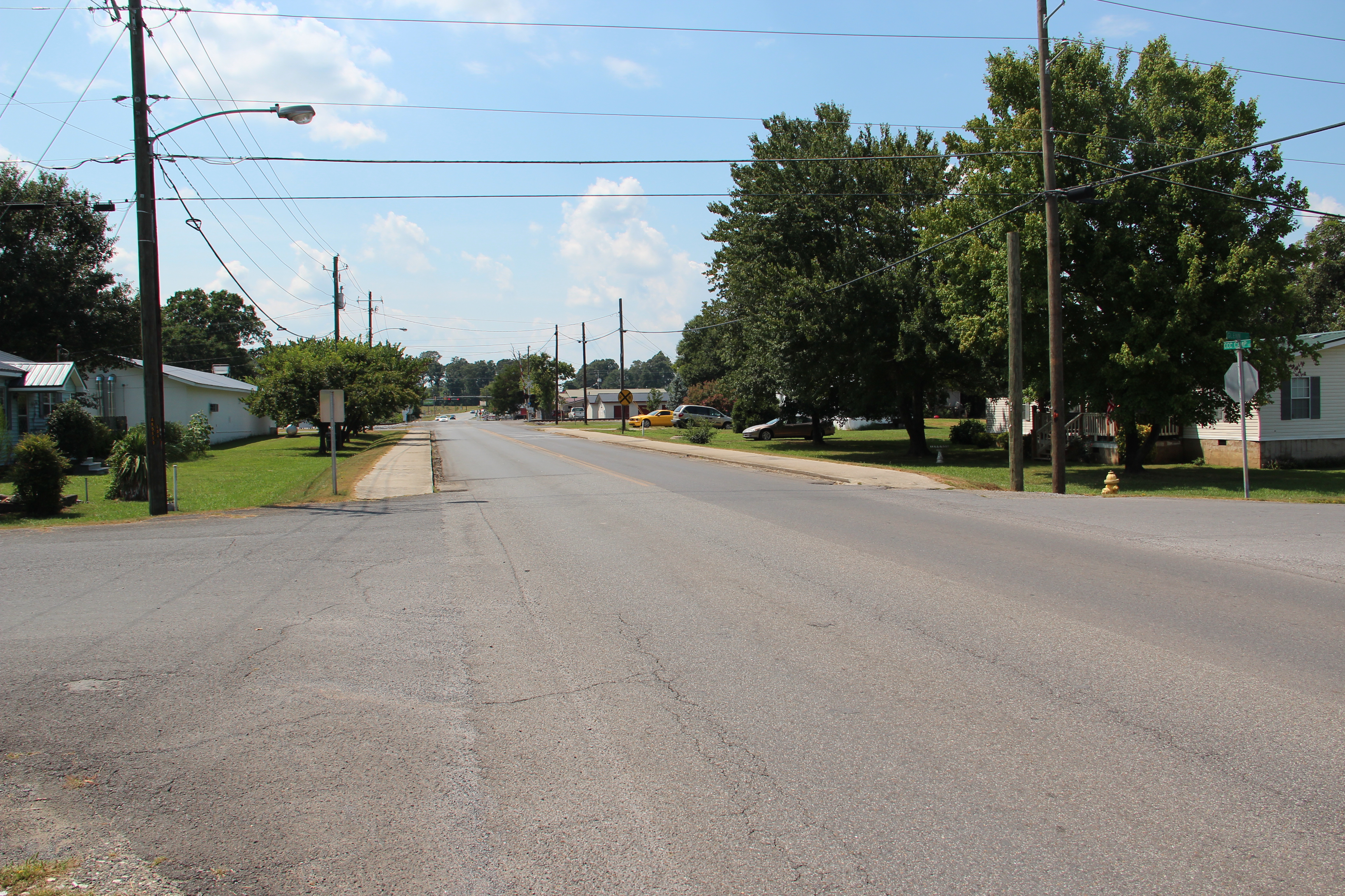 CCC Camp Road in Eton, Georgia